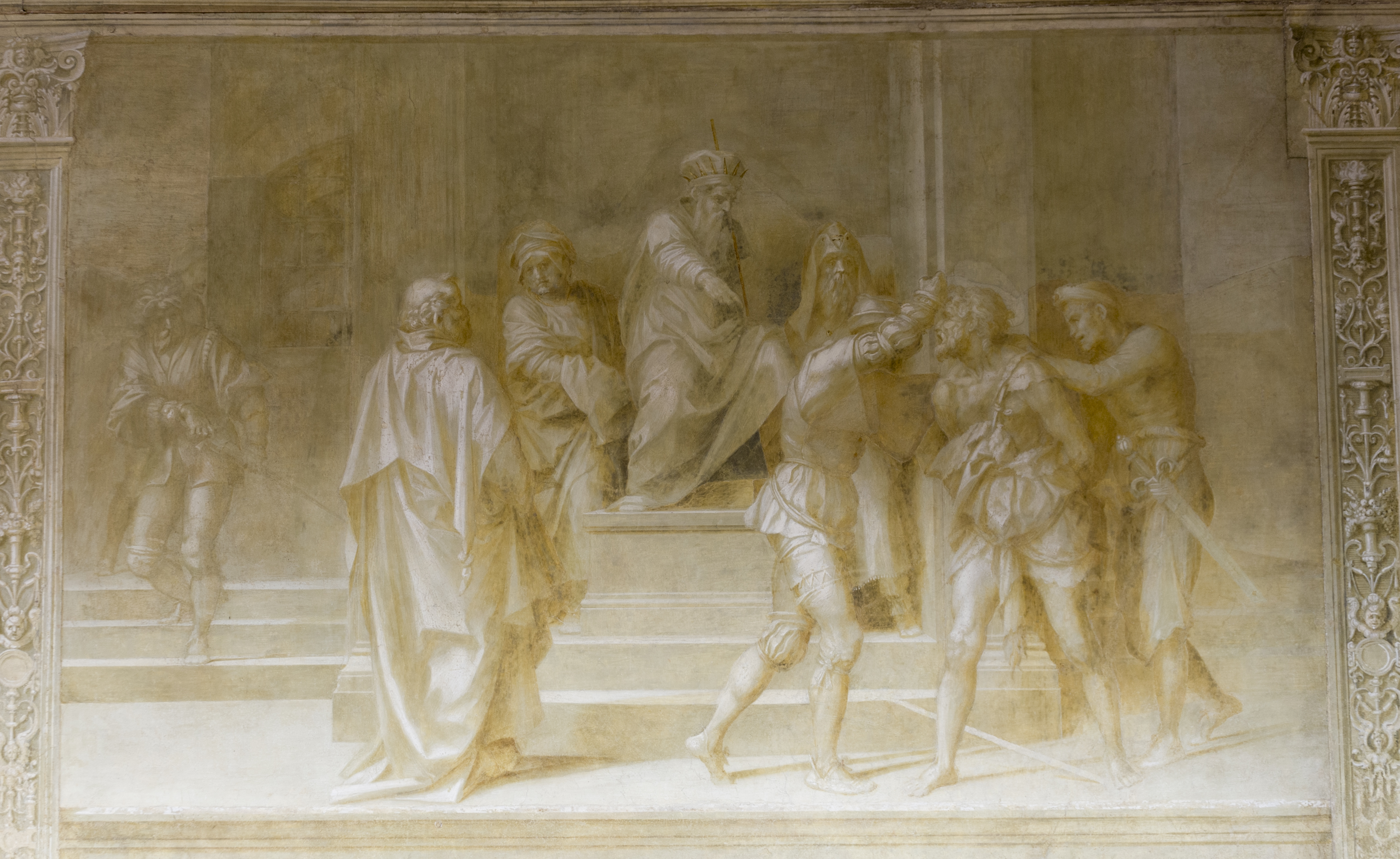 "St. John's Capture", by Andrea del Sarto